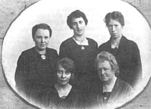 Photograph of the executive committee of Norwegian Labour Party's Women's Federation (Arbeiderpartiets kvindeforbund). It pictures (back row) Klara Bakken, Helga Karlsen, Thina Thorleifsen and (front row) Sigrid Syvertsen and Hanna Adolfsen.